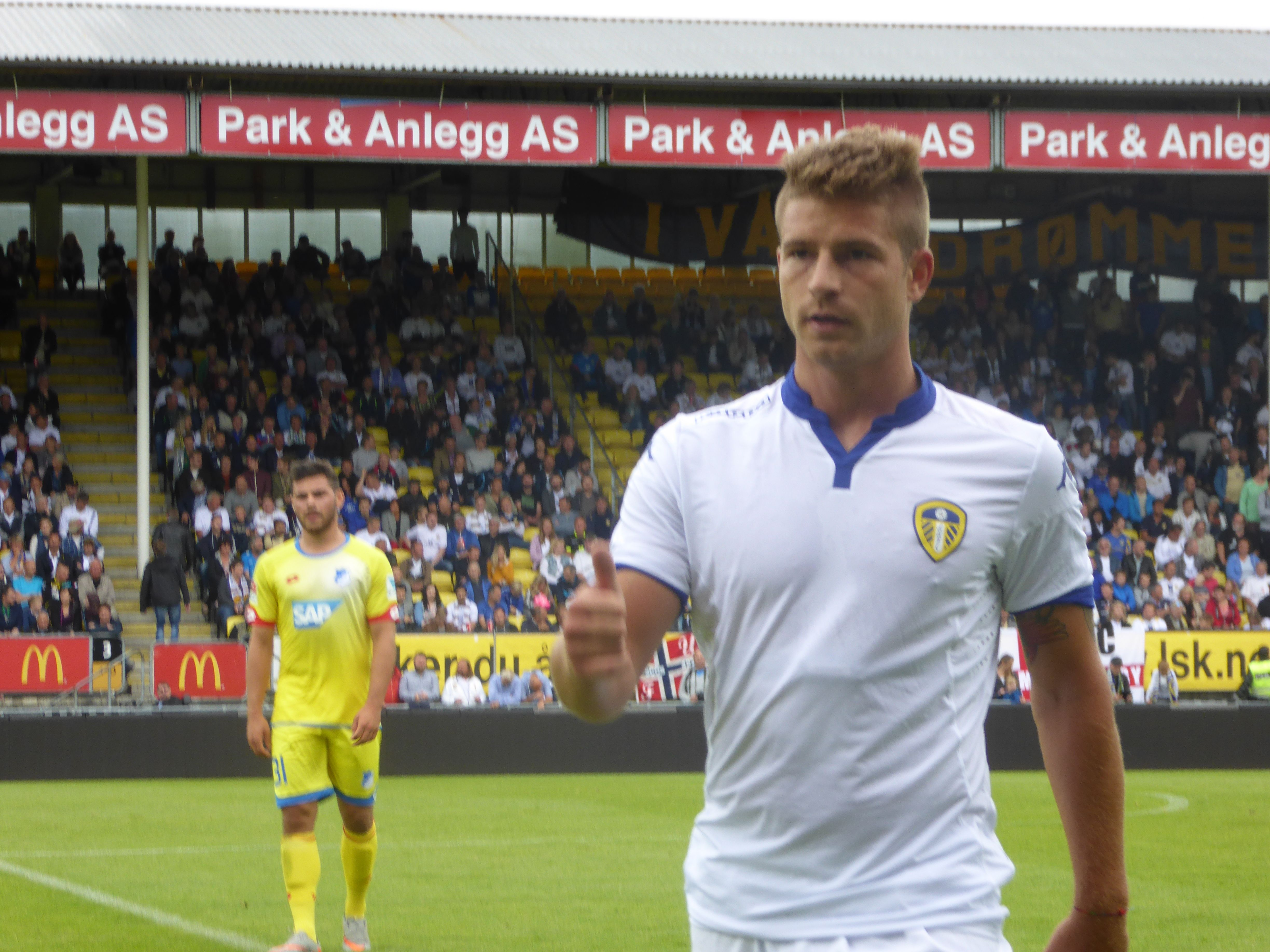 Swiss footballer Berardi.